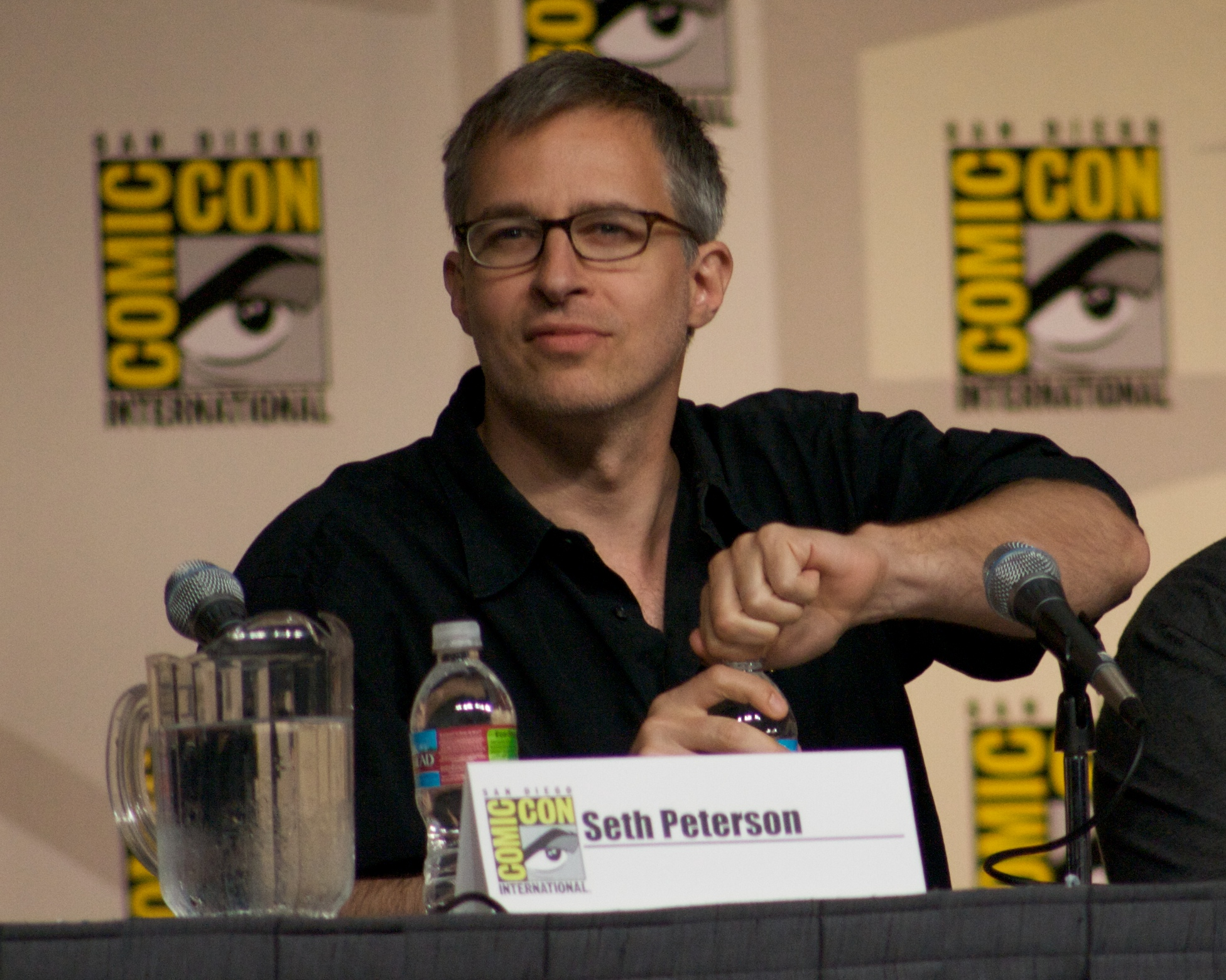 Jay Karnes, ("Brennen" the gun-runner) at the Burn Notice Panel, Comic Con 2009